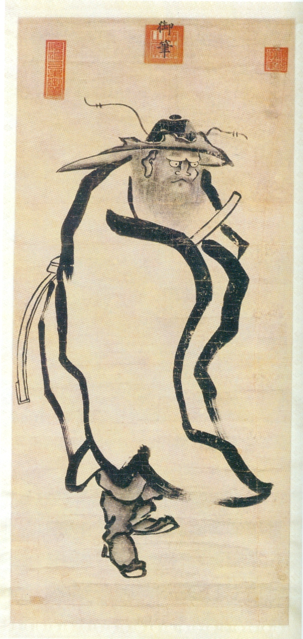 Portrait of Zhong Kui painted by the Shunzhi Emperor (r. 1643–1661) of the Qing dynasty. The two characters yubi 御筆 on top of the ink painting mean "imperial brush." The original painting is kept at the Palace Museum in Beijing, China.